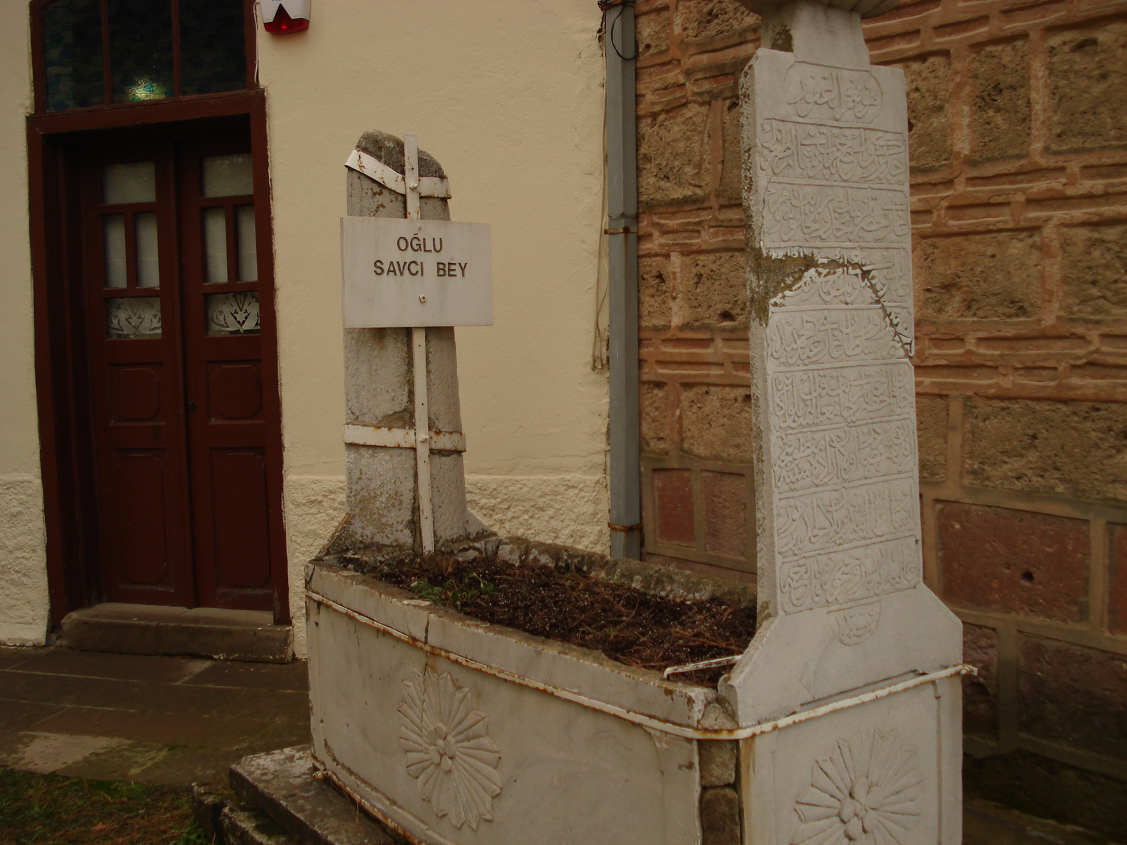 Ertuğrul's son Savcı Bey's grave in the garden of the Ertuğrul Gazi's grave in Söğüt